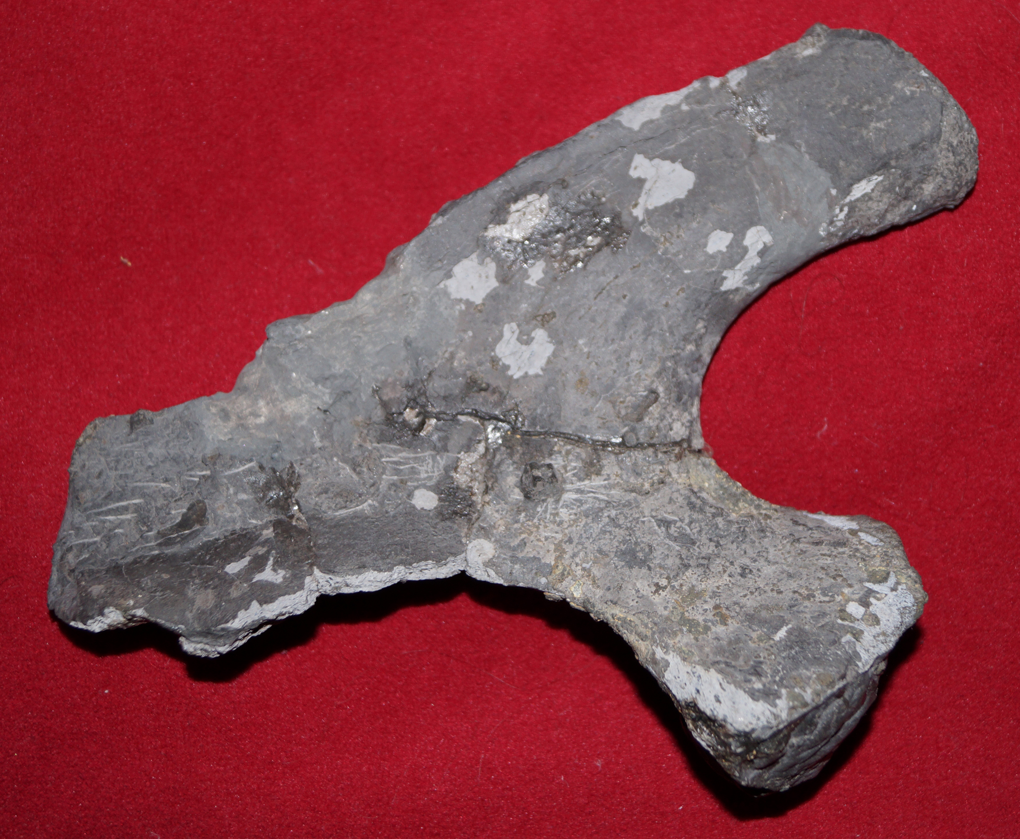 Arminisaurus schuberti (NAMU ES/jl 36052), a plesiosaurian from the Pliensbachian of Bielefeld (Germany). Right scapula in medial view.